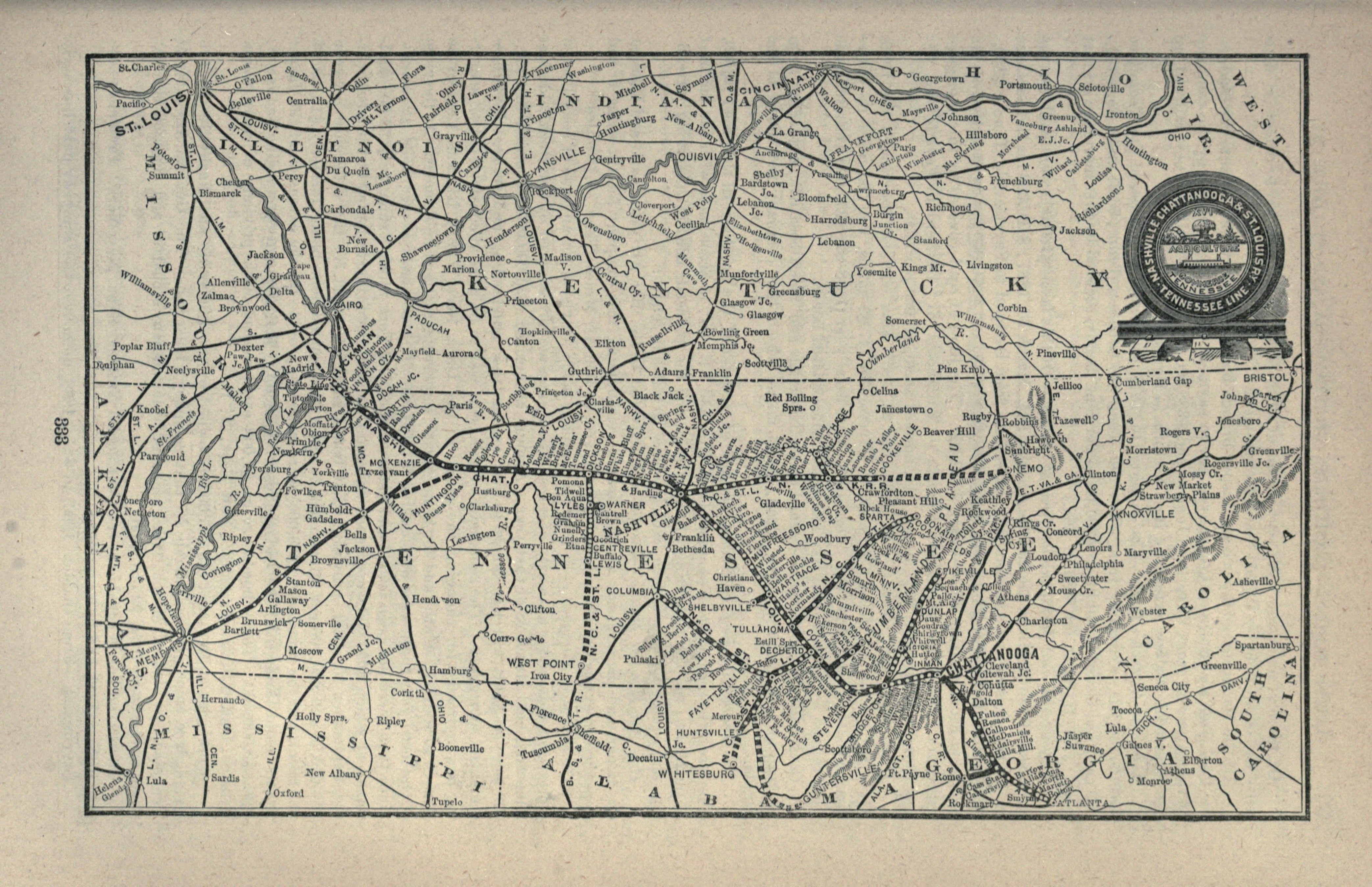 Nashville, Chattanooga and St. Louis Railway